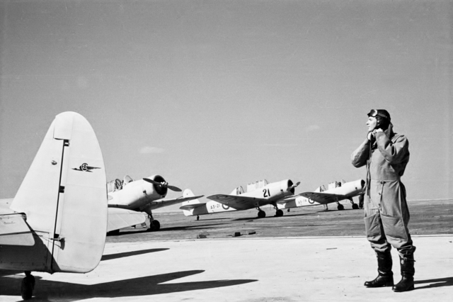 Leading Aircraftman Gordon Keith Johnson shown dressed in full flying kit and adjusting his helmet before a training flight. Johnson is an Empire Air Training Scheme (EATS) trainee undergoing pilot training in Wachett trainer aircraft, shown in the background, at No 11 Elementary Flying Training School, RAAF, Benalla, VIC.